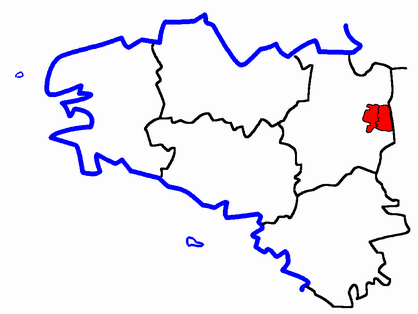 Description: Map for localisazion of cantons of Bretagne region in France Source: made by Hervé Tigier from another large map (published in 1990)